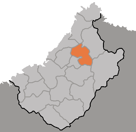 Map of Changgang, Chagang-do, DPRK, 2006